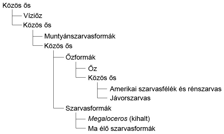 The family tree of deers